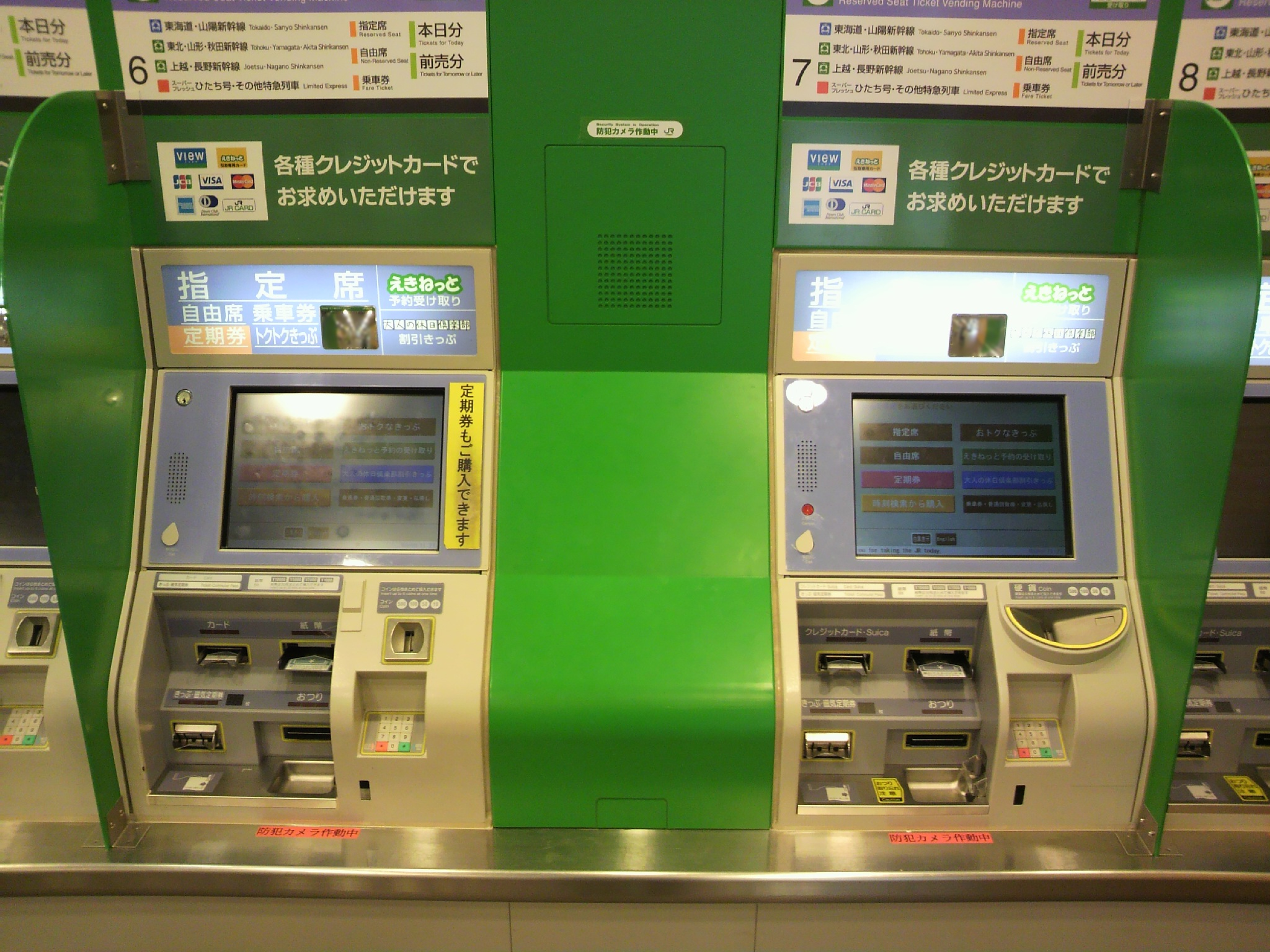 Reserved ticket machines at Ueno Station of JR East.